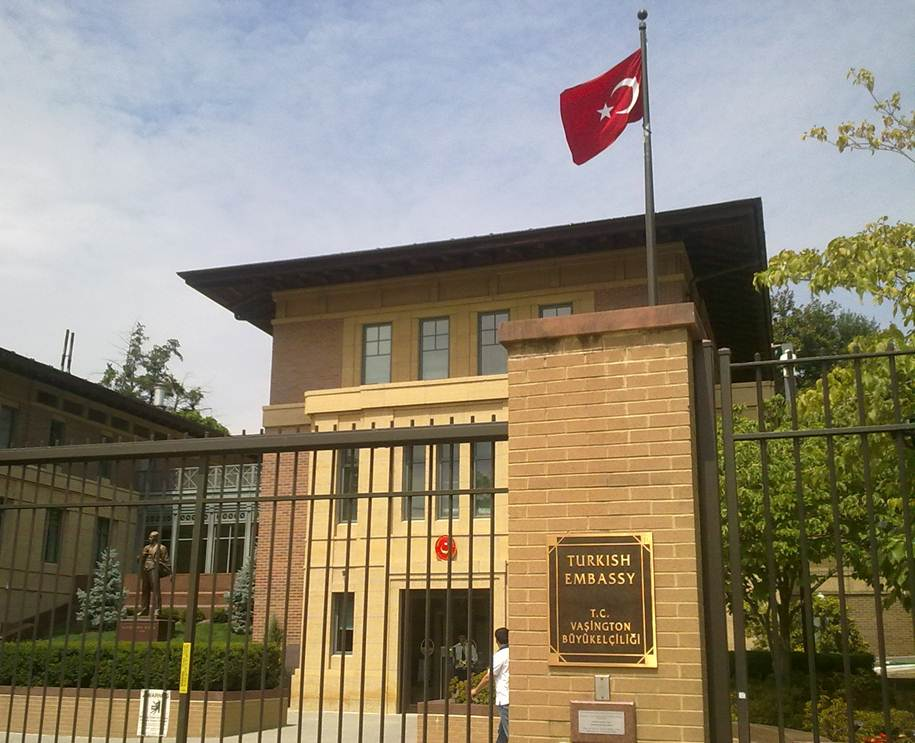 Turkish Embassy, Washington D.C.